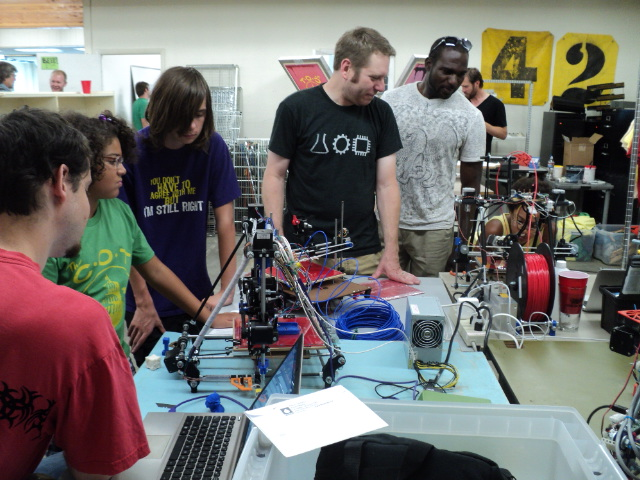 Children participate in a Maker Meetup held at the Reuseum in Garden City, Idaho, an open house and planning session for Boise's Mini Maker Faire scheduled for April, 2013.